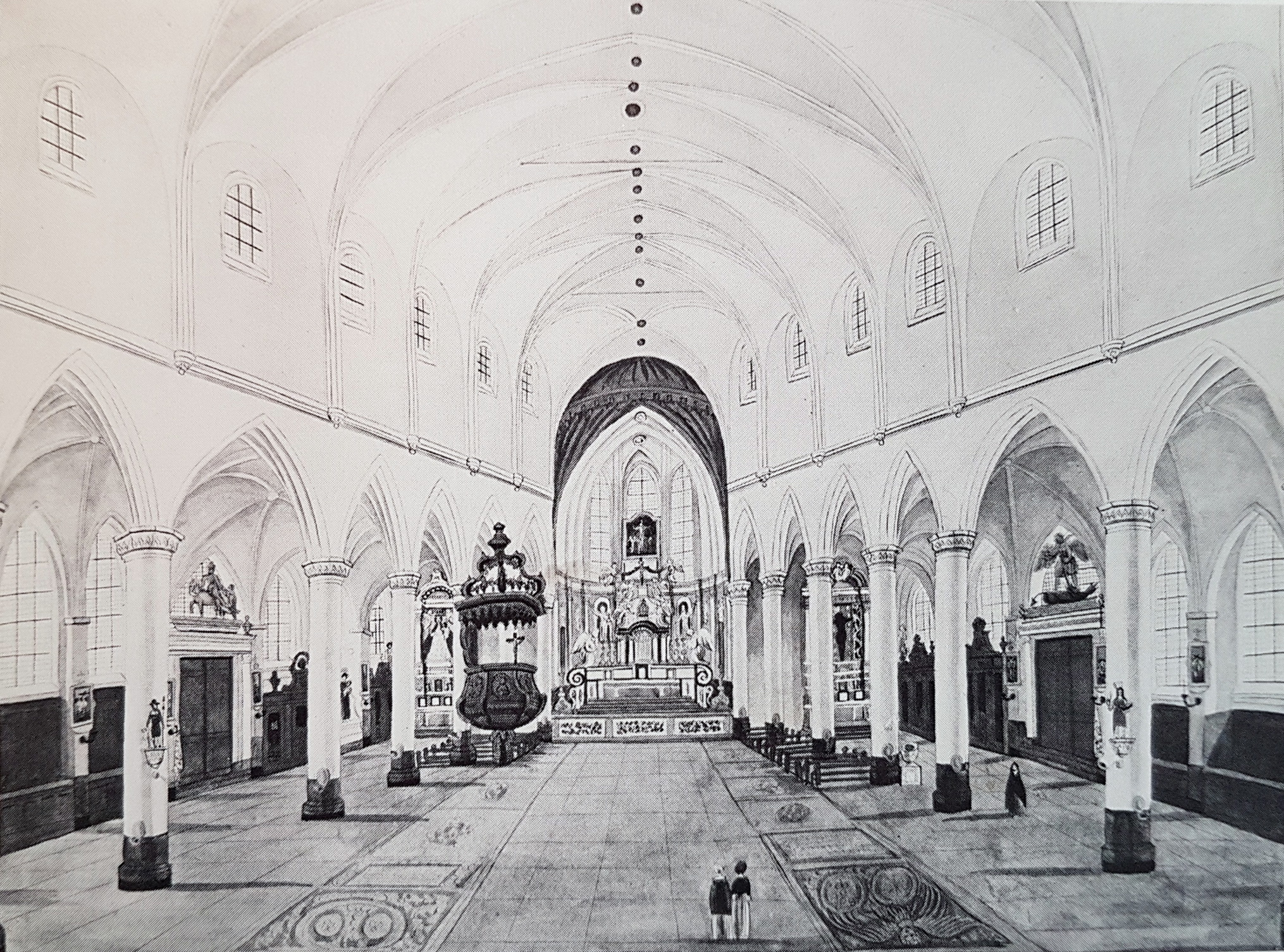 Interior view of the medieval parish church of St. Martin in Maastricht, Netherlands. Drawing by local artist and amateur-historian Philippe van Gulpen, ca. 1850. The church was demolished shortly afterwards and replaced by the current Gothic Revival building designed by Pierre Cuypers.